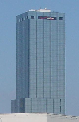 This is a cropped photo of Downtown Tampa that emphasizes One Tampa City Center, the third-tallest building in Tampa.